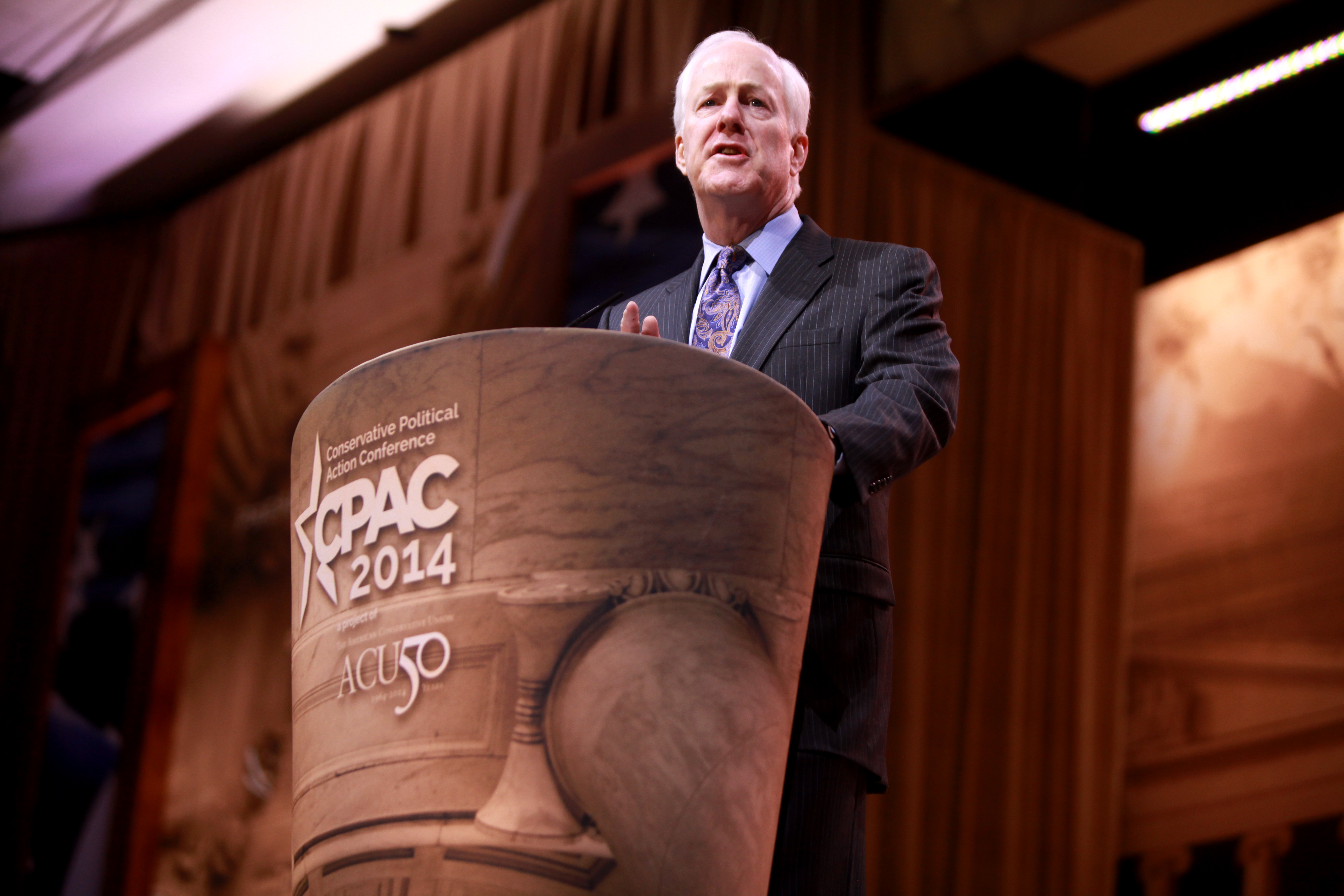 John Cornyn speaking at CPAC 2014 in Washington, DC.